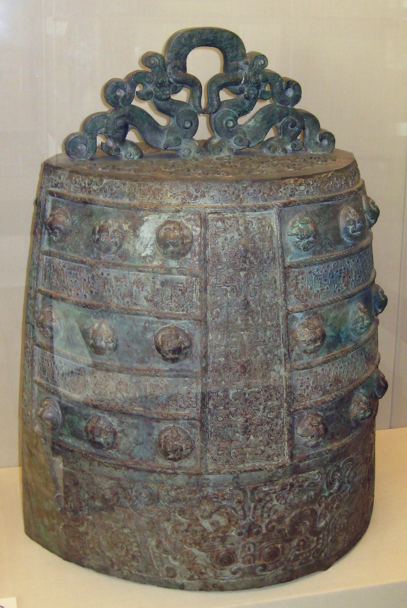 Eastern Zhou bronze bell (bo); one of a set from Houma, Shanxi.